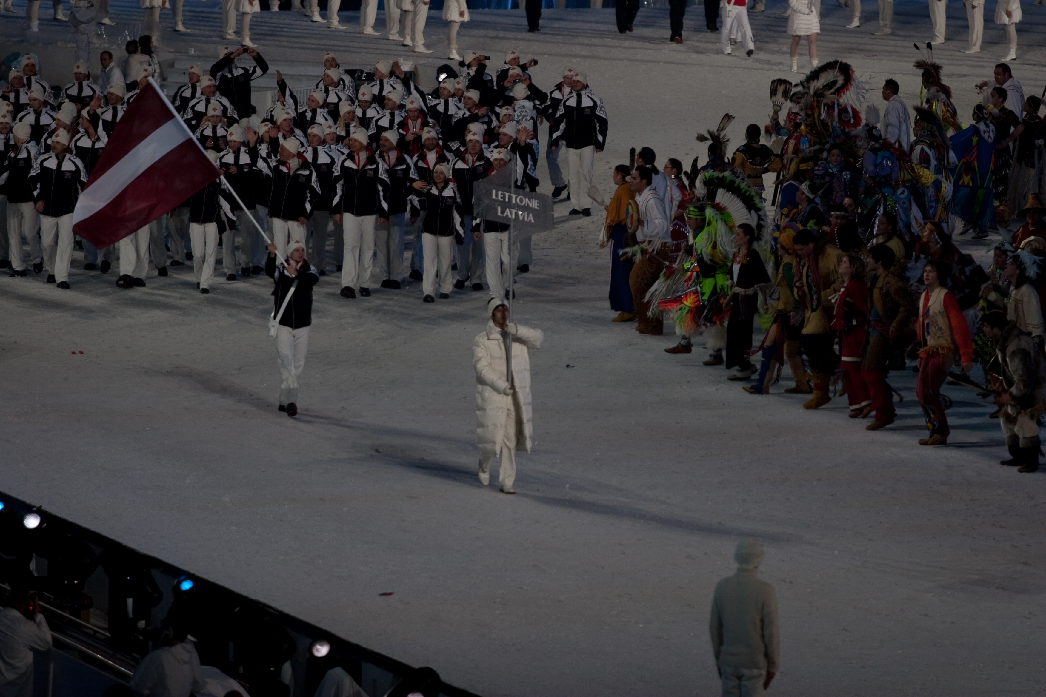 The athletes from Latvia entering the stadium at the opening ceremonies of the 2010 Winter Olympics